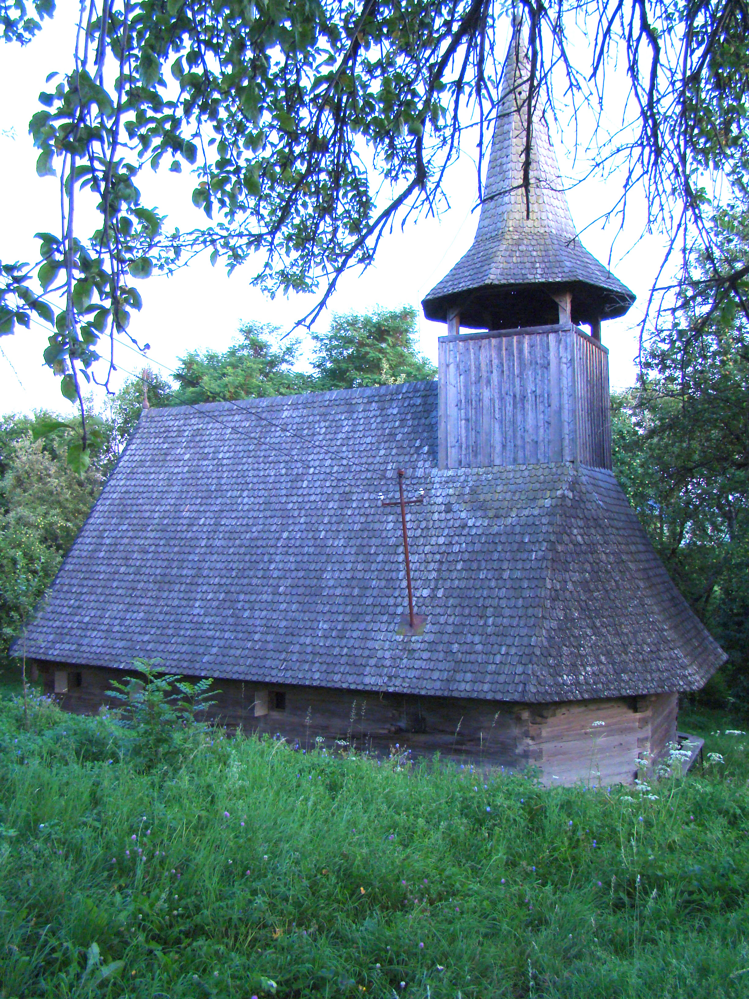 wooden Greek Catholic church in Țigău, Bistrița-Năsăud county, Romania